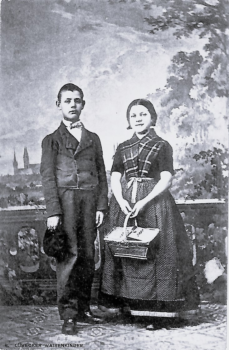 Typical Orphans of Lübeck in 1910